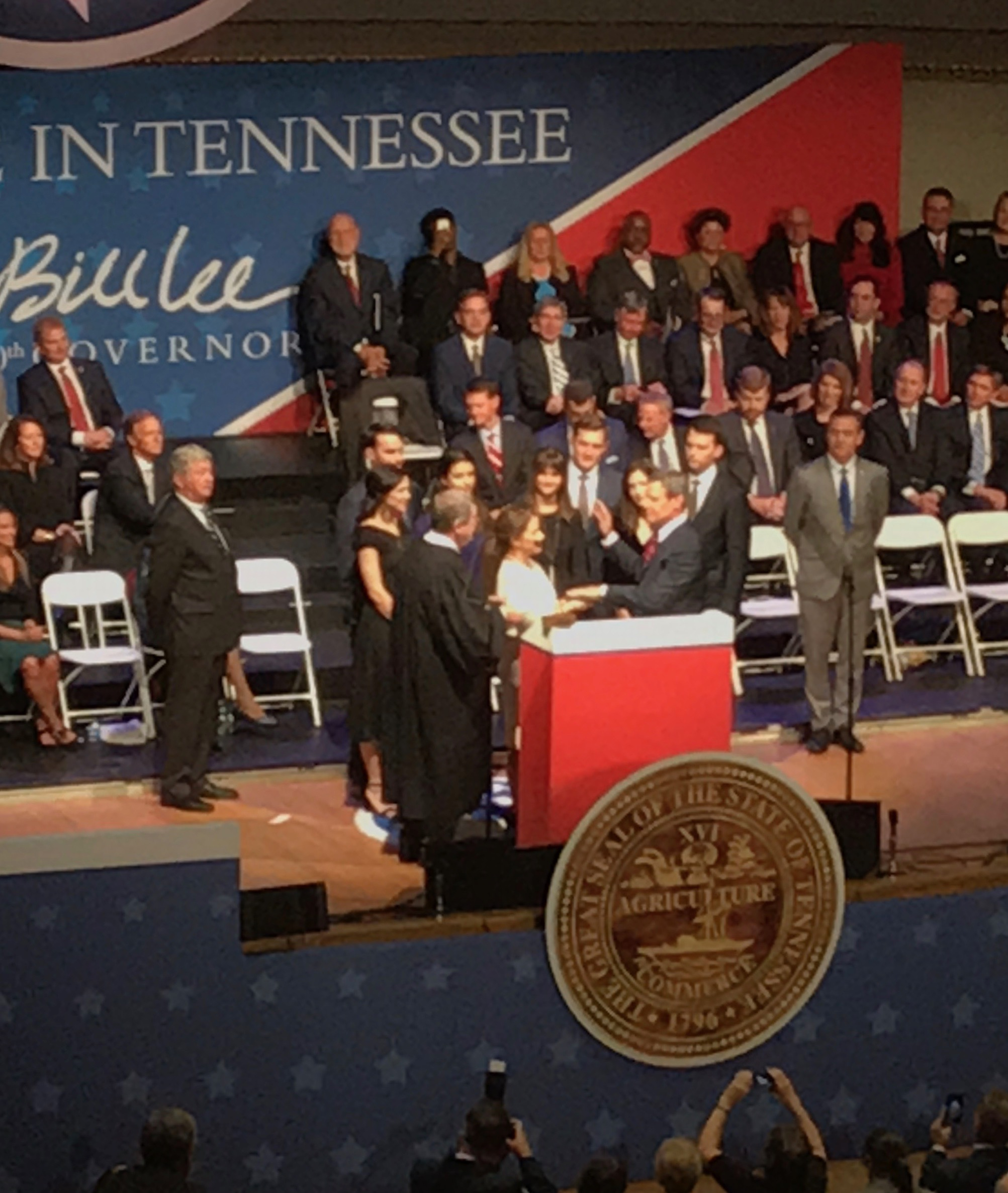 Governor Bill Lee being sworn into office on Saturday, Jan 19, 2019, in the War Memorial Auditorium in Nashville, TN.